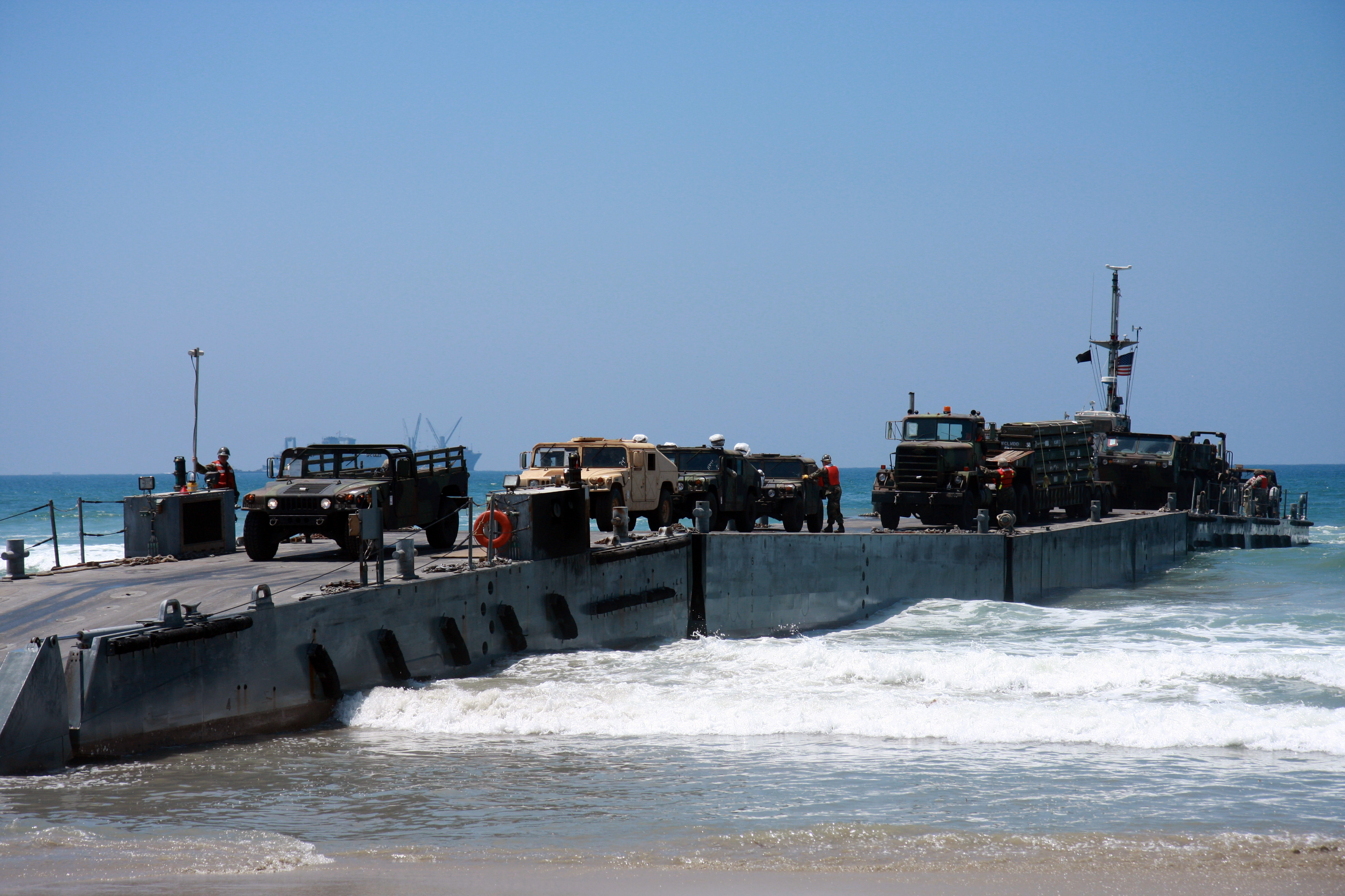 CAMP PENDLETON, Calif. (July 24, 2008) U.S. military cargo is off loaded from a floating causeway by U.S. Army Soldiers and U.S. Navy Sailors at Red Beach at Camp Pendleton. JLOTS is a joint U.S. military operation aimed at preparing amphibious assault landings. This is the first JLOTS event at Camp Pendleton since 2002. (U.S. Marine Corps photo by Private 1st Class Jeremy Harris/Released)